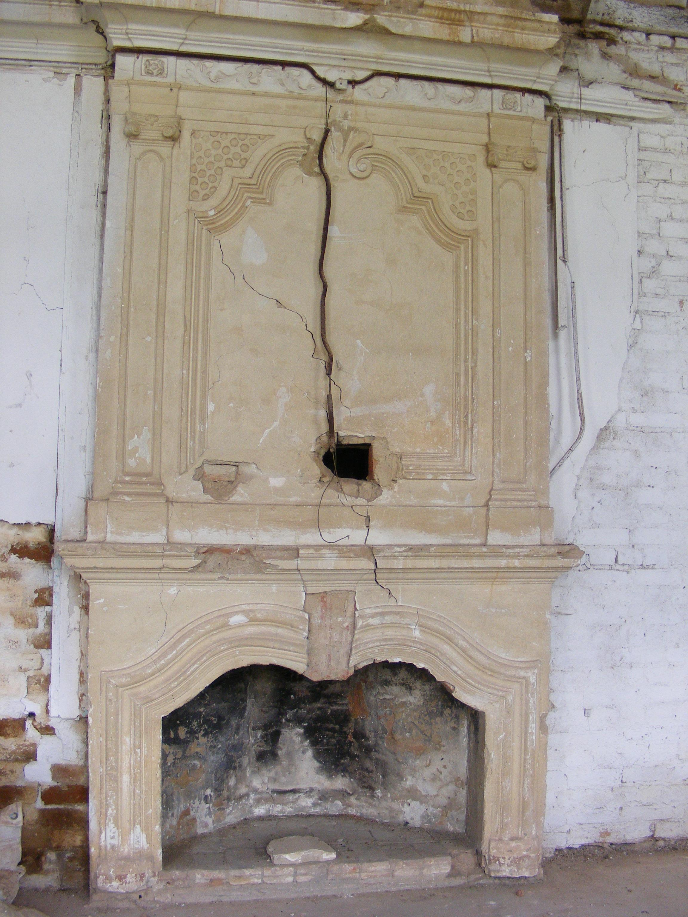 Rossewitz Castle, Mecklenburg. Fireplace.